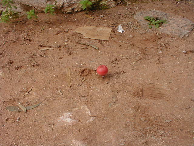 rolling top Walon: tourpene ki rôle (portrait saetchî pa L. Mahin).